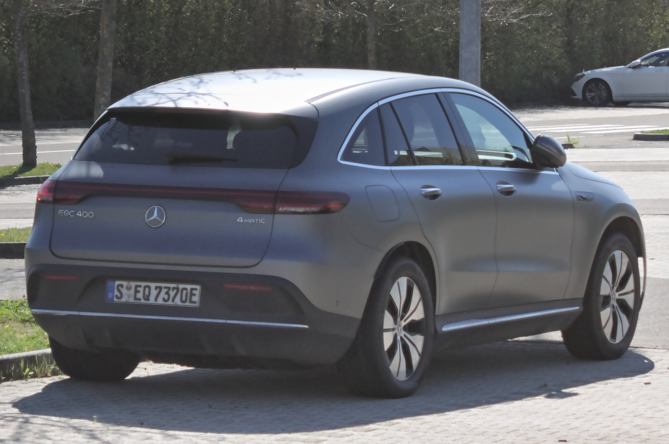 Mercedes-Benz_N293 in Böblingen